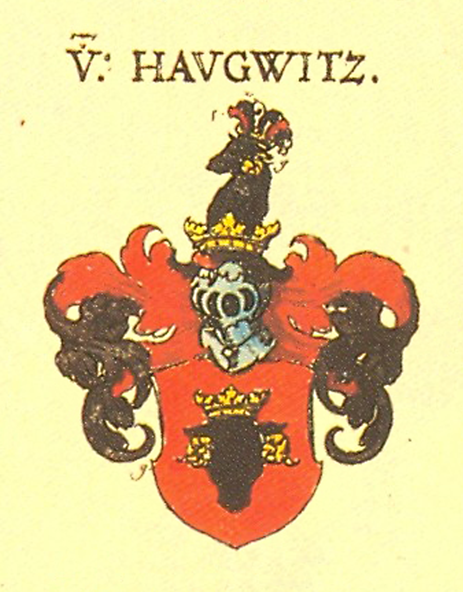 Coat of arms of Haugwitz